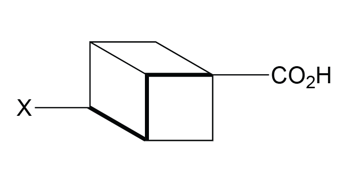 Cubane substituted with an electron-withdrawing group and a carboxylic acid on opposite corners.